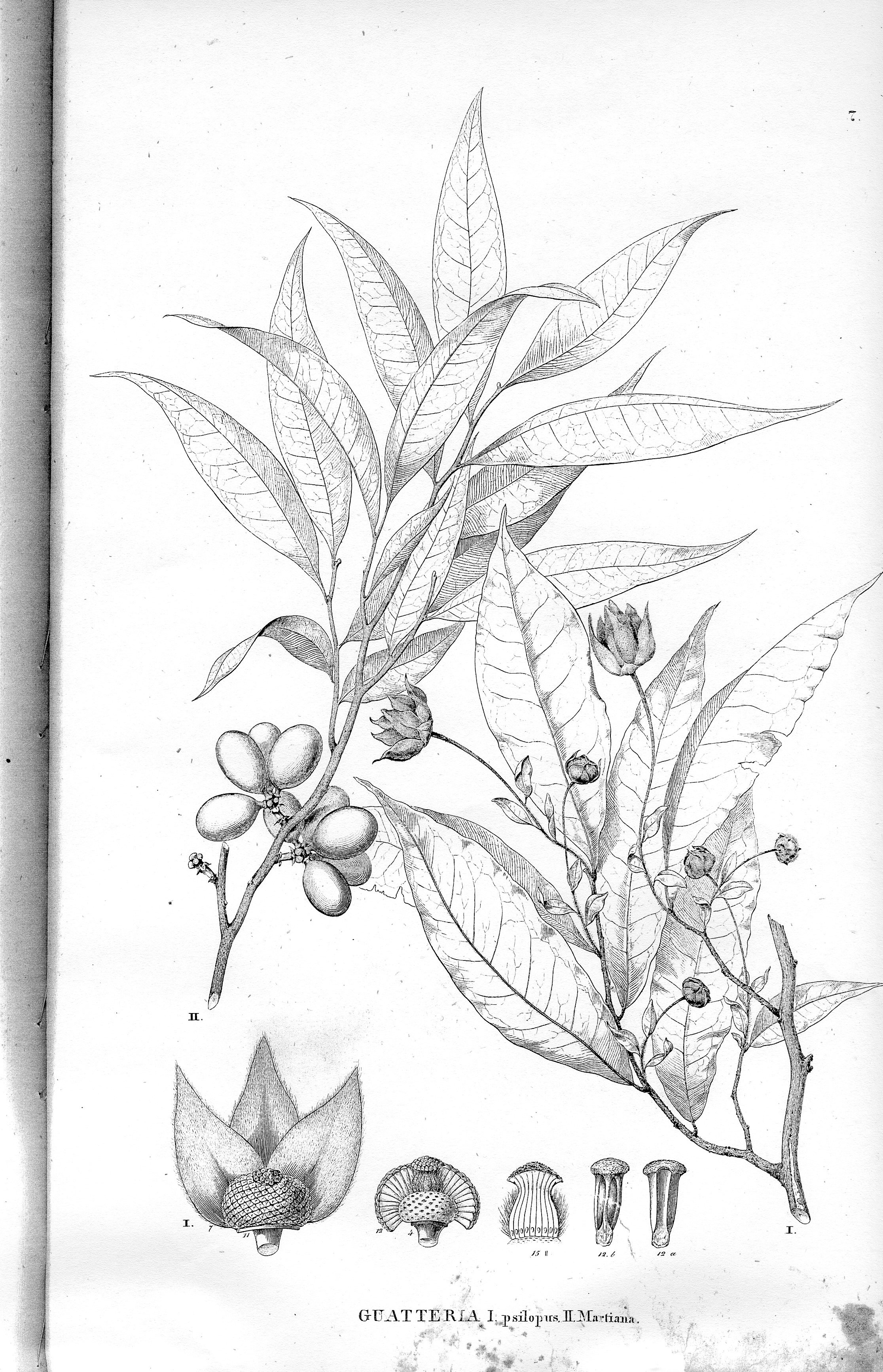 An example of a painting from the taxonomic collection of plants Flora Brasiliensis